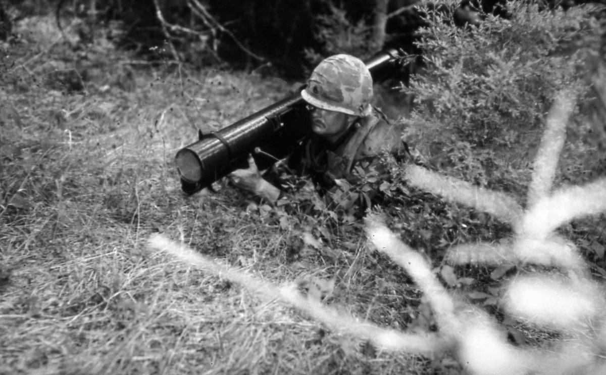 black and white sent me for an article on the M72 LAW replacement. Comment on the back states CC 10155 Redstone Arsenal, AL "US Army soldier with British LAW 80 light antitank weapon during evaluation" Photographer Unknown, SDP 76-6 UNCLASSIFIED US Army Audio Visual Agency(1) 01 Aug 1983